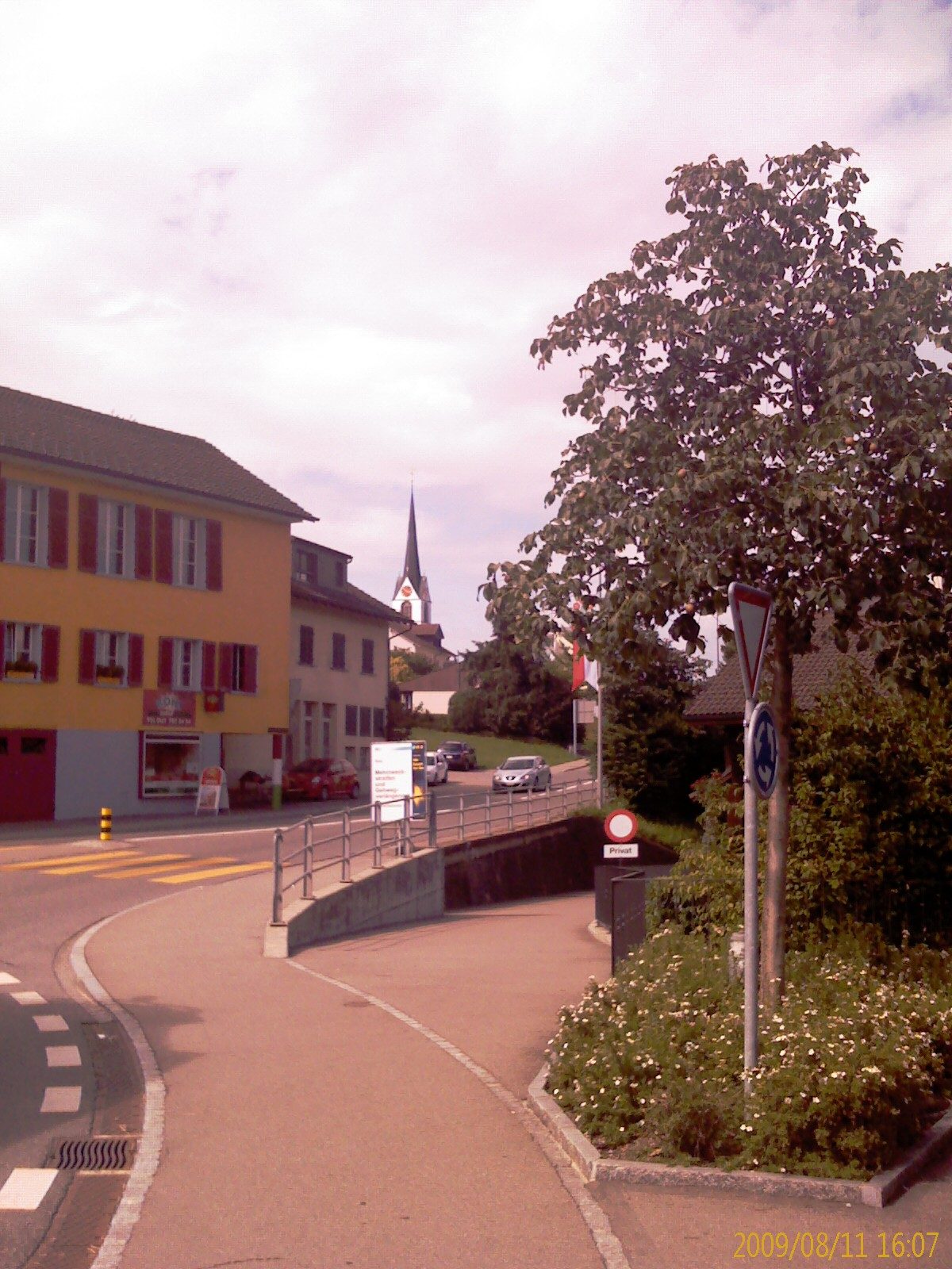 Church of Sins, canton of Aargau, SwitzerlandEsperanto: Preĝejo de Sins, Kantono Argovio, Svislando